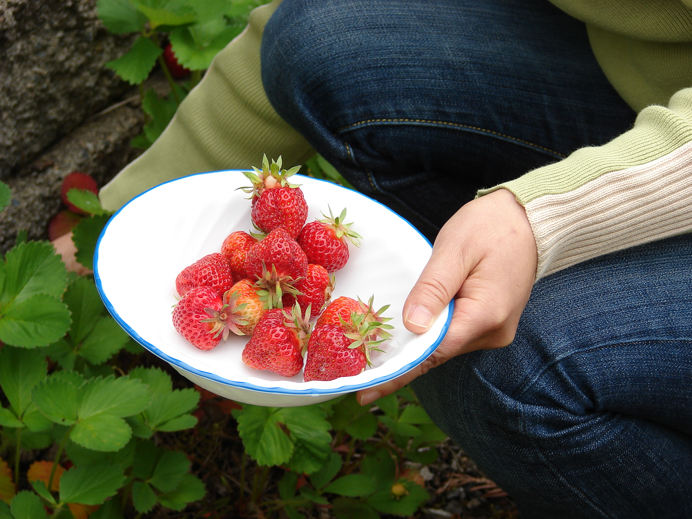 Picking strawberries (Fragaria × ananassa).